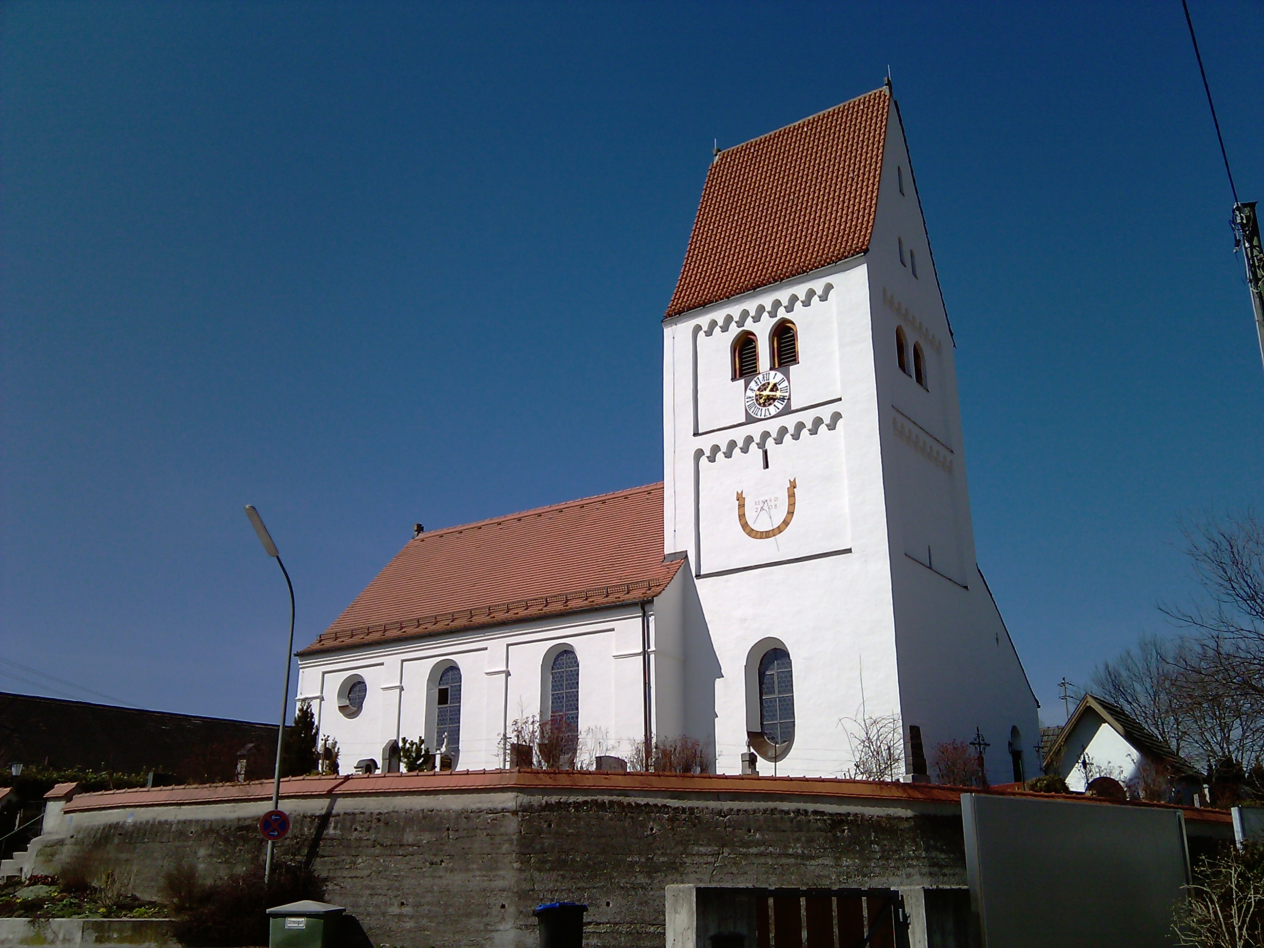 The church tower, seen from south-east.